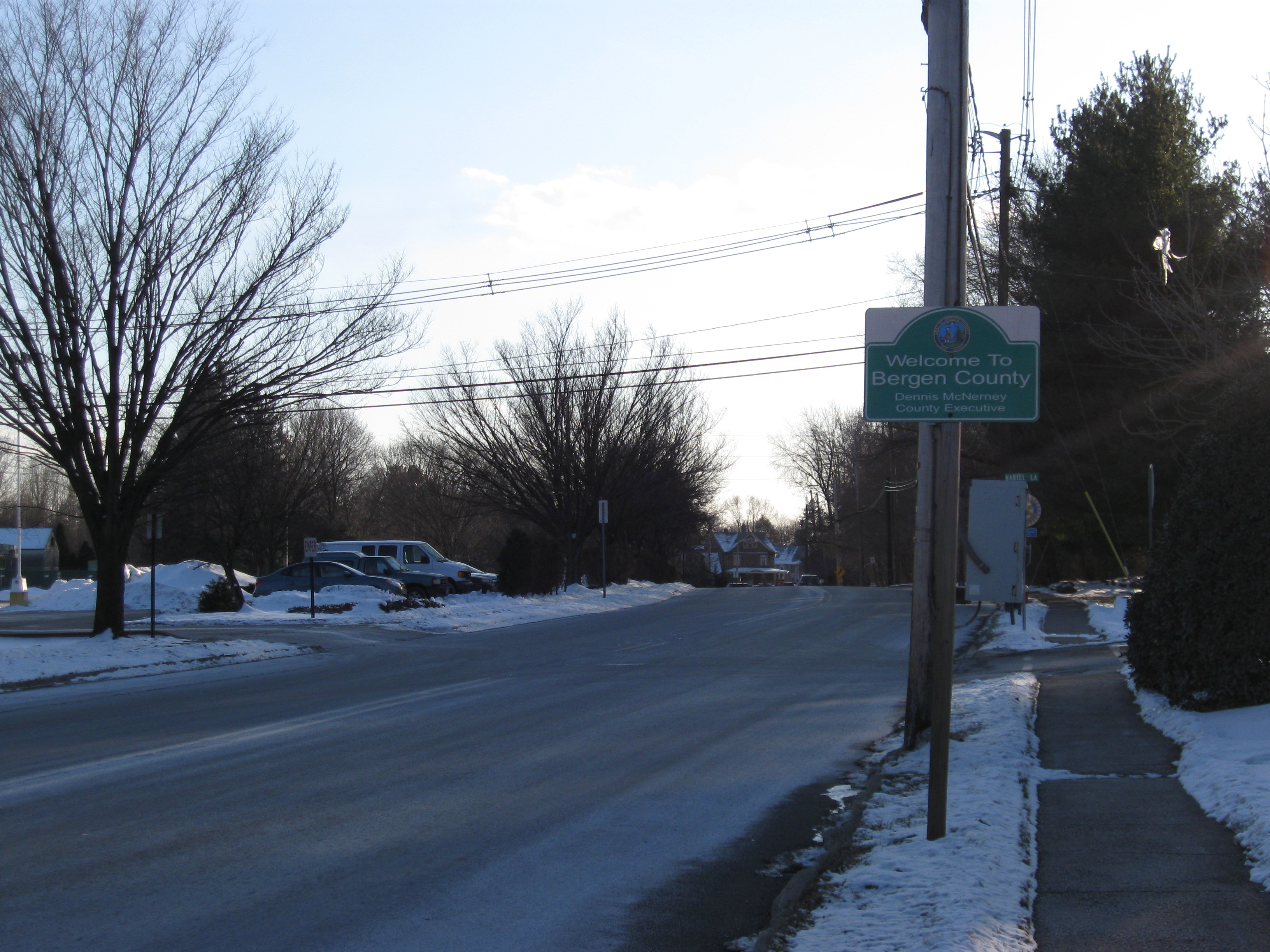 Looking south along North Kinderkamack Road across Hartel Lane at Bergen County Line in Montvale.